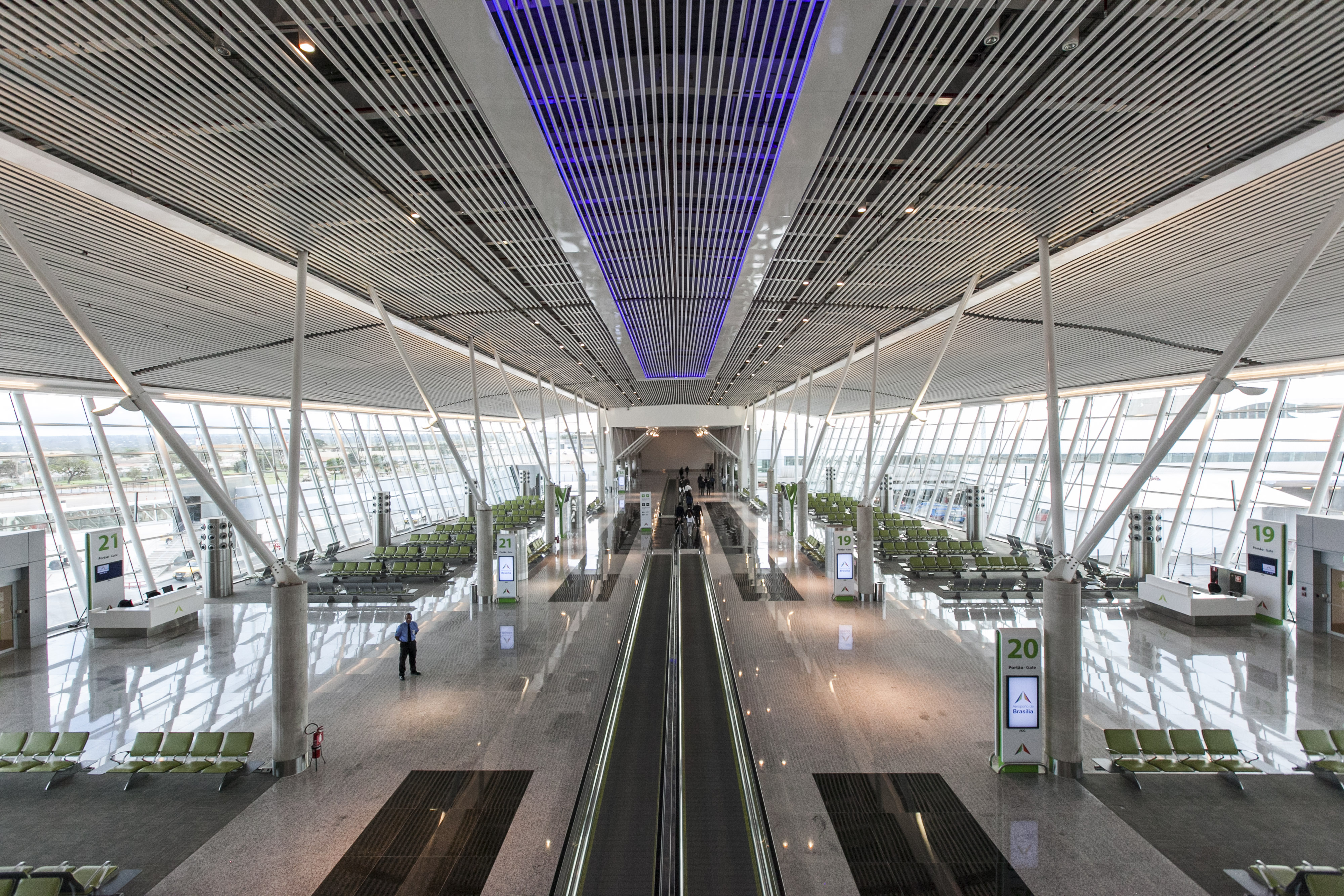 Ala Sul do Aeroporto Internacional de Brasília, Brasil